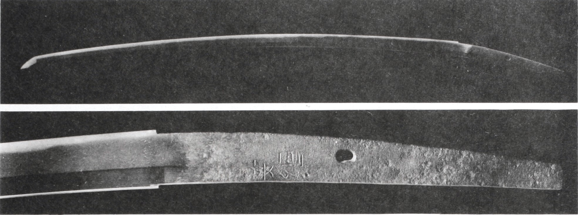 Tachi or Monster Cutter (Dohjigiri Yasutsuna) Yasutsuna Hōki Yasutsuna One of the Five Famous Swords in Japan, legendary sword with which Minamoto no Yorimitsu killed the boy-faced oni Shuten-dohji living near Mount Oe. Presented to Oda Nobunaga by the Ashikaga family subsequently in possession of Toyotomi Hideyoshi and Tokugawa Ieyasu, curvature: 2.7 cm (1.1 in), Heian period, 10th–11th centur 80.0 cm (31.5 in) Tokyo National Museum, Tokyo